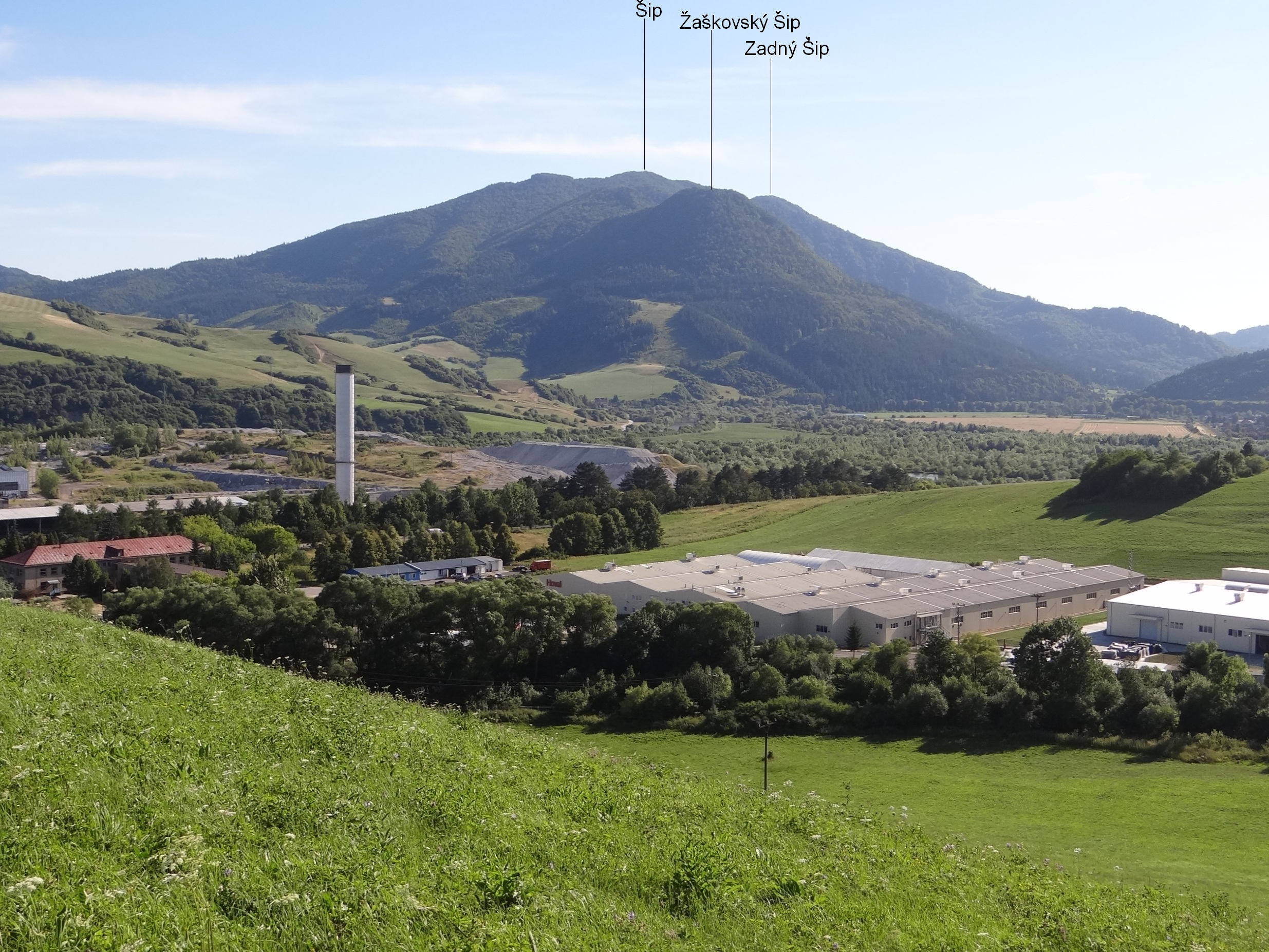 View from Istebné